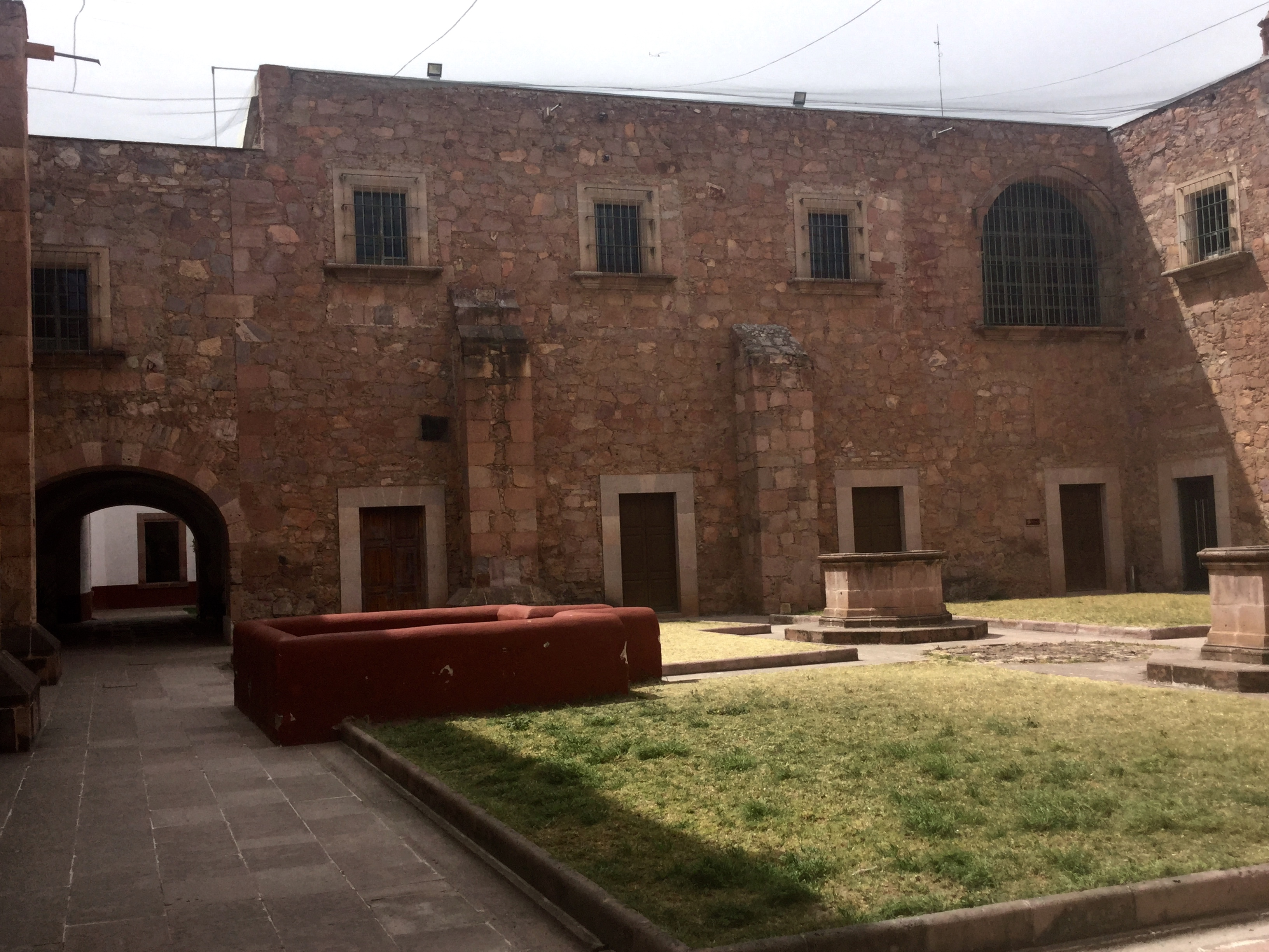 Patio del Museo